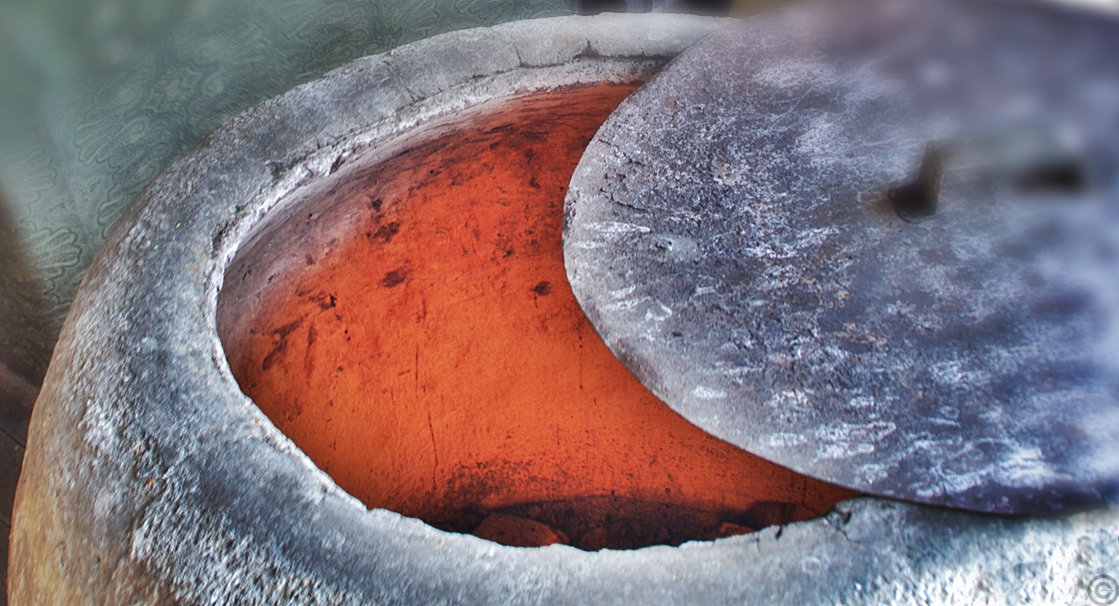 Azerbaijani oven made of clay in a hole in the earth